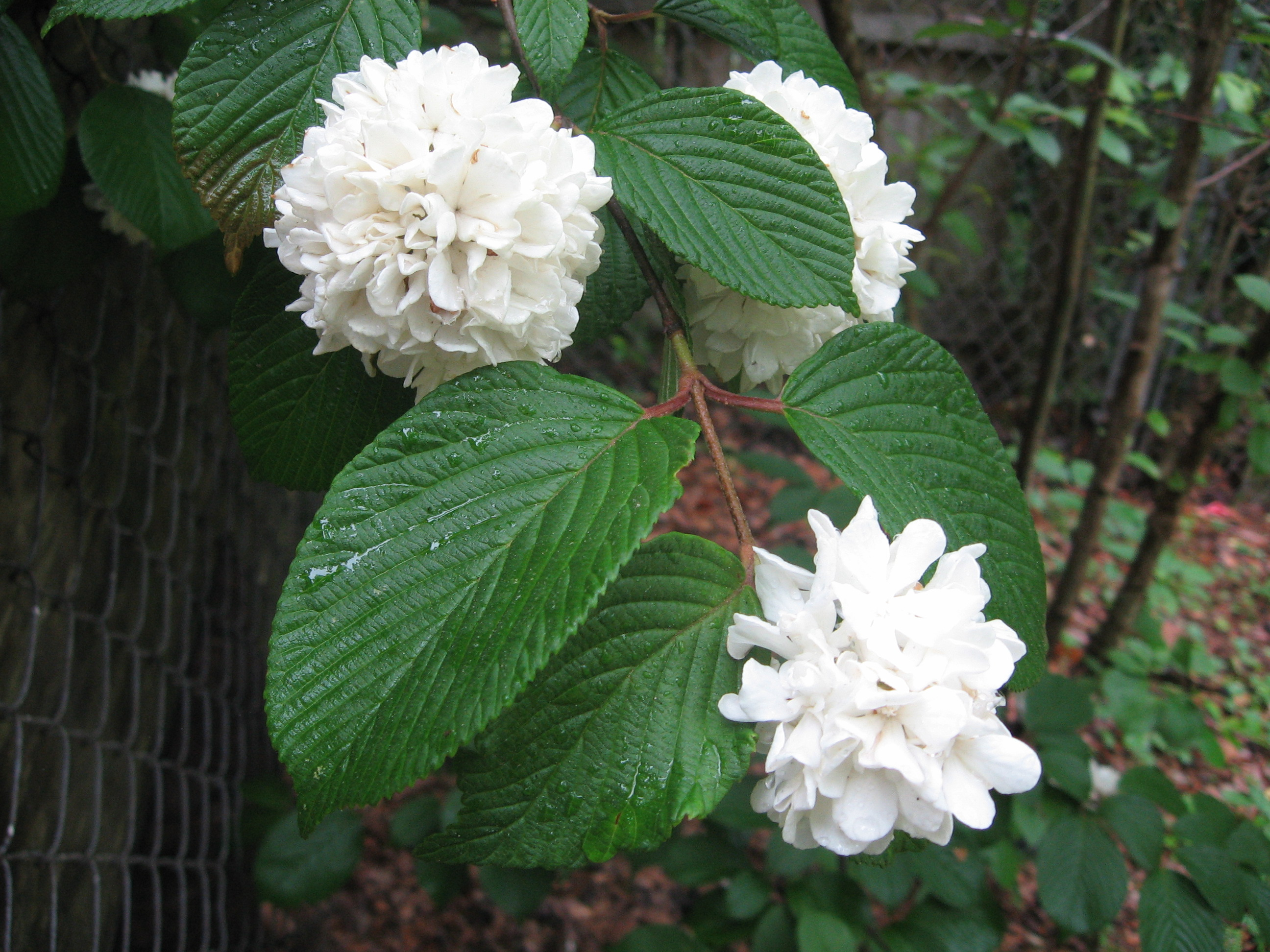 Photo of a Snowball bush flowers taken in my backyard in Conyers, Georgia.